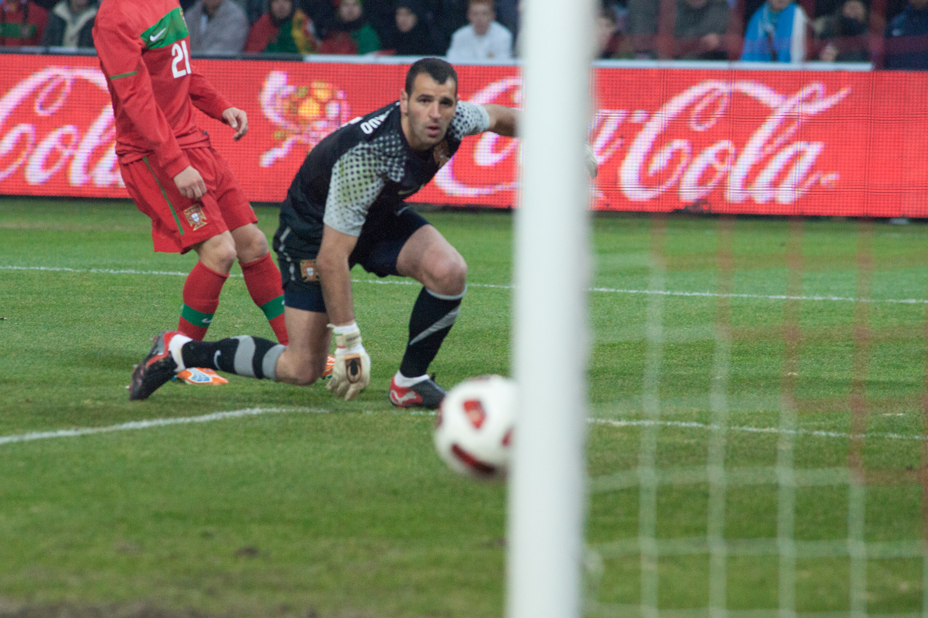 Goal, Portugal - Argentina, 9th February 2011.